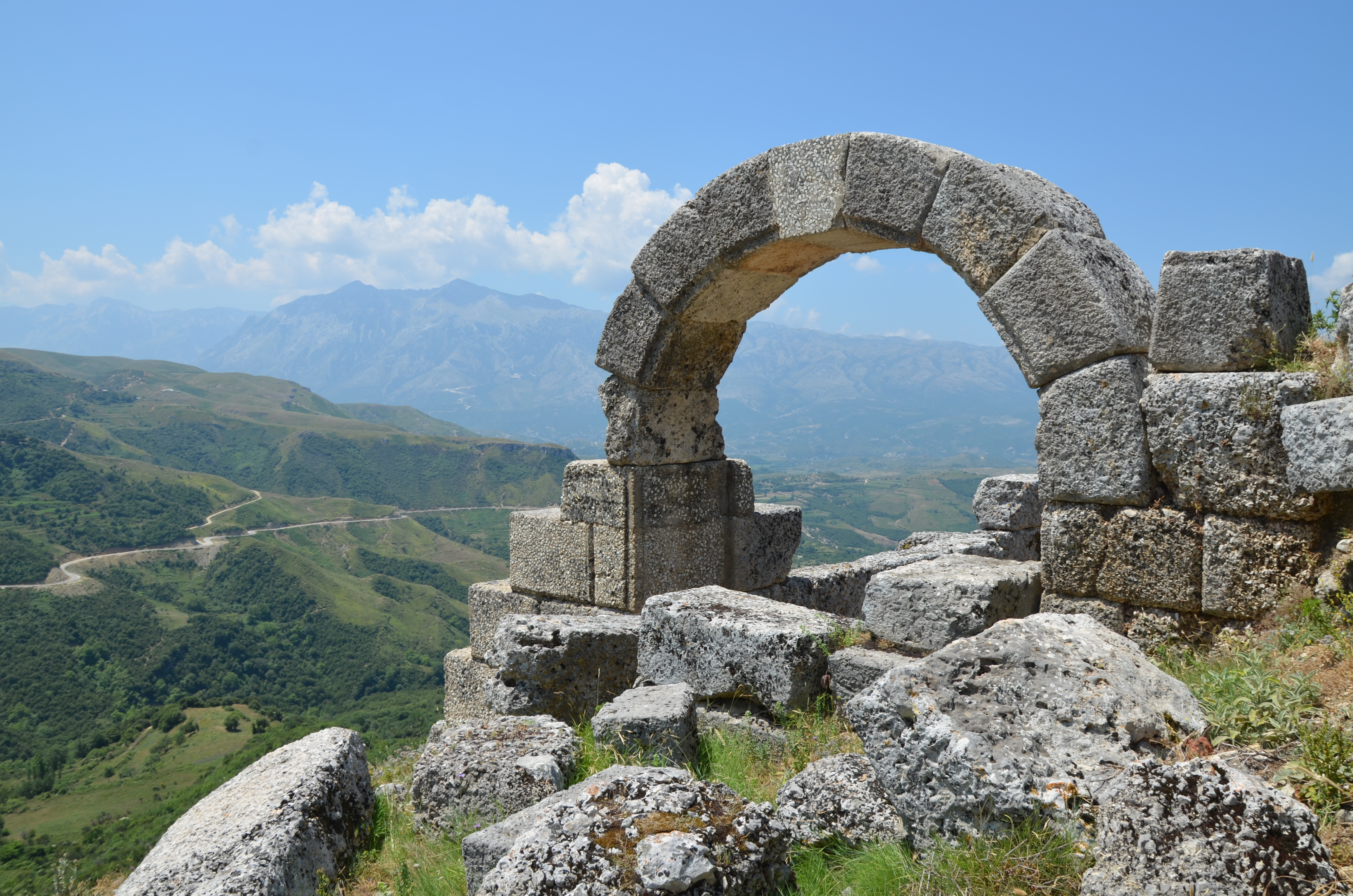 One of the city gates of Amantia with archway belonging to the second phase of construction of the city, Albania